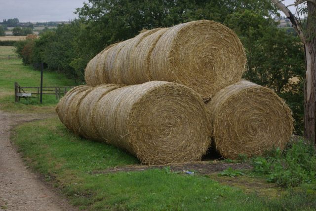 Straw Bales near Yardley Gobion Stacked adjacent to bridge 60 on the Grand Union Canal.